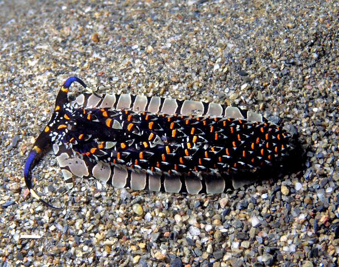 Cerberilla ambonensis burrowing nudibranch from East Timor